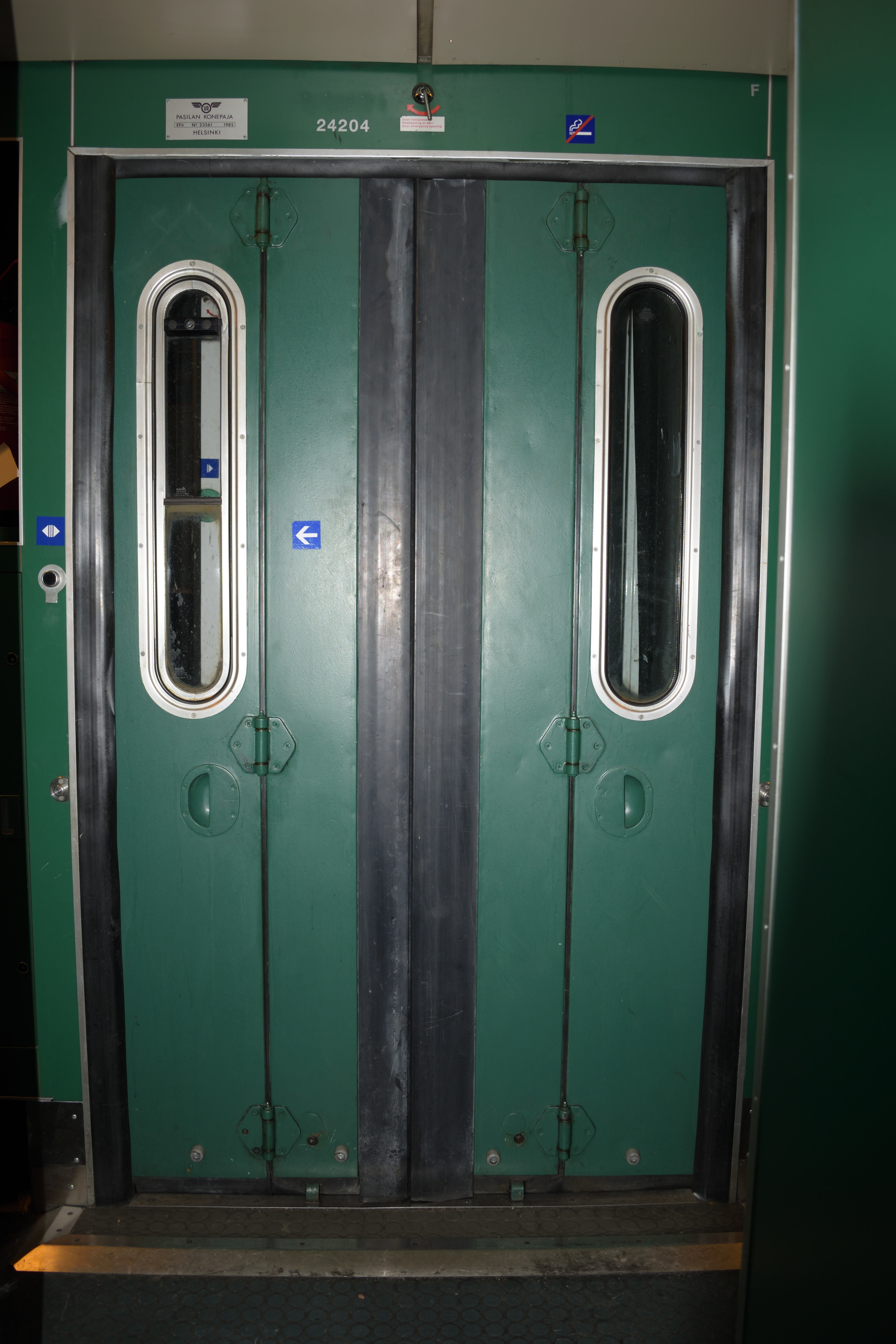 Paineilmaovi sinisessä vaunussa